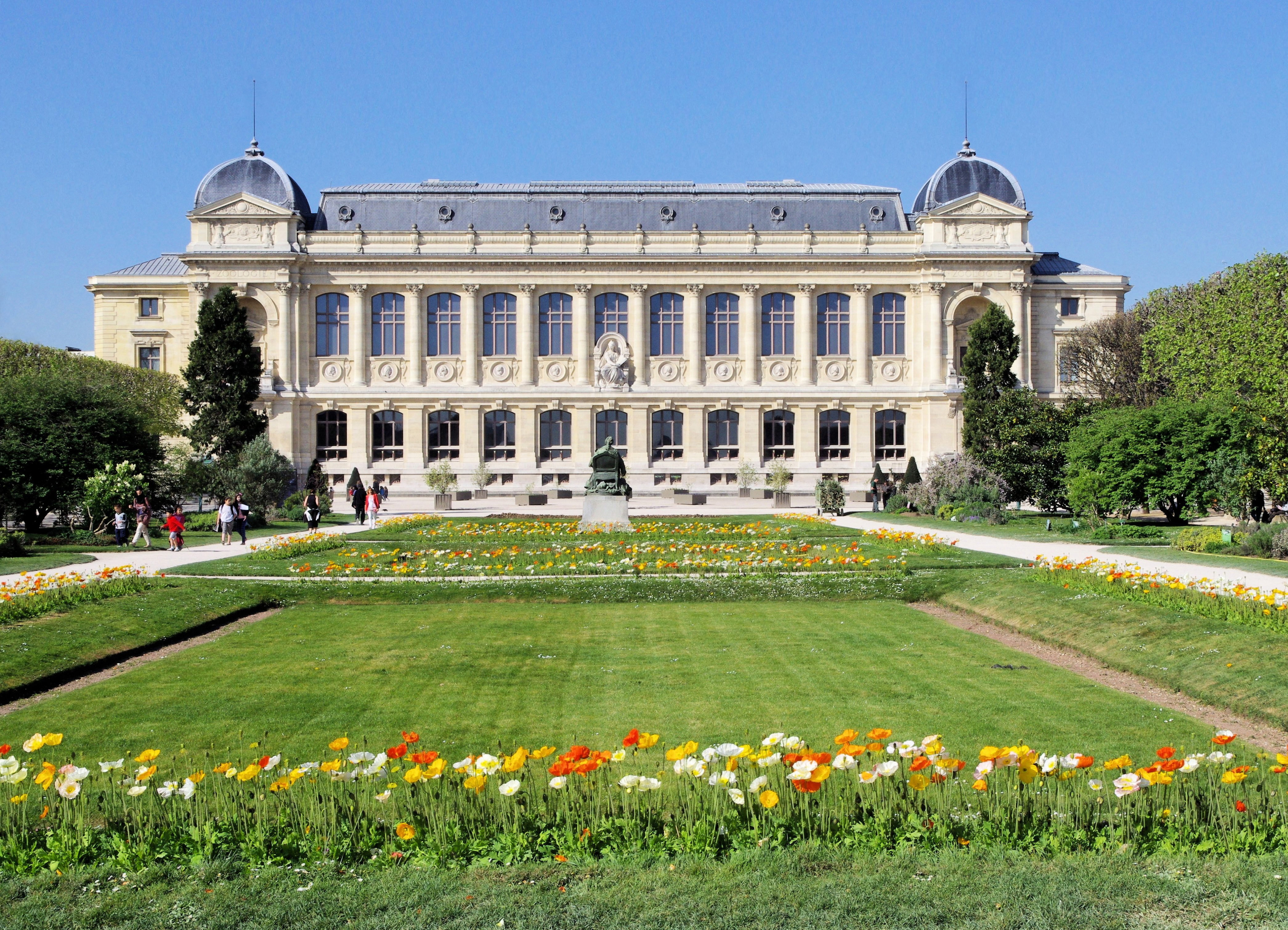 Façade of the grande galerie de l'Évolution (Gallery of Evolution), which is a zoology museum building belonging to the French National Museum of Natural History. The building is located in the Jardin des plantes in Paris.